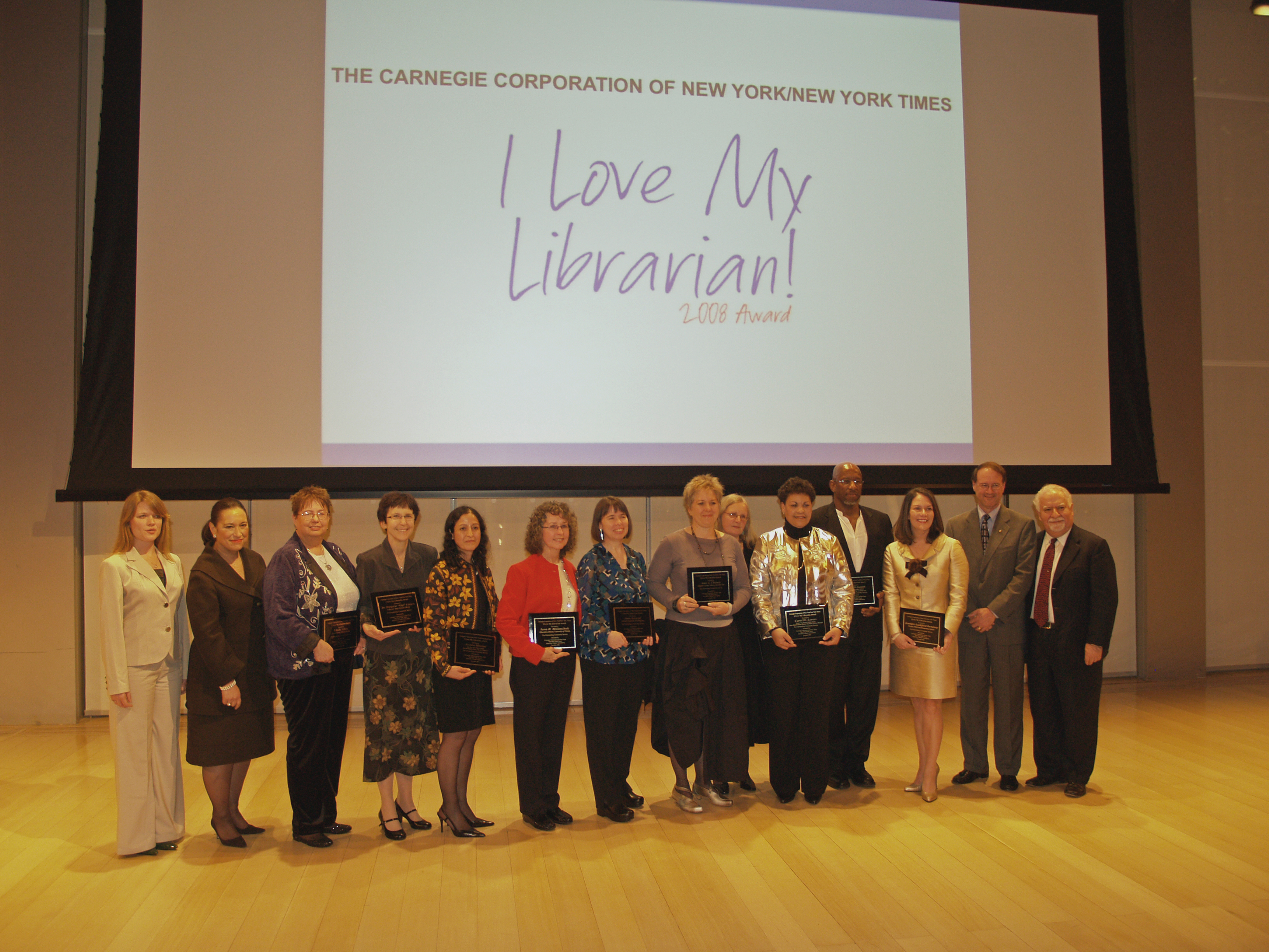 The presenters and recipients of the 2008 I Love My Librarian! awards. From left to right: Annalisa Crews, Janet L. Robinson, Linda Allen, Gigi Lincoln, Anezoo Moseni, Iona Malanchuk, Jean Amaral, Amy Cheney, Elaine McIlroy, Carol Levers, Paul McIntosh, Jennifer Lankford Dempsey, Jim Rettig and Vartan Gregorian